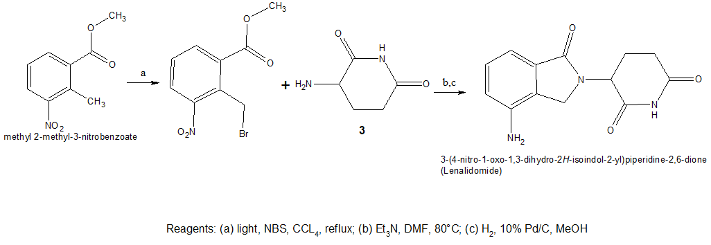 A way to synthesize Lenalidomide, an analog of thalidomide